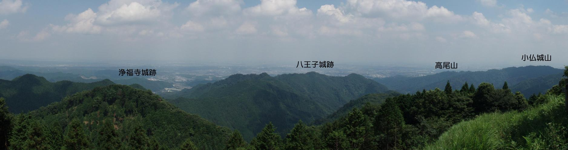 View from Mount Kagenobu (Kagenobu-yama) in Tokyo, Japan